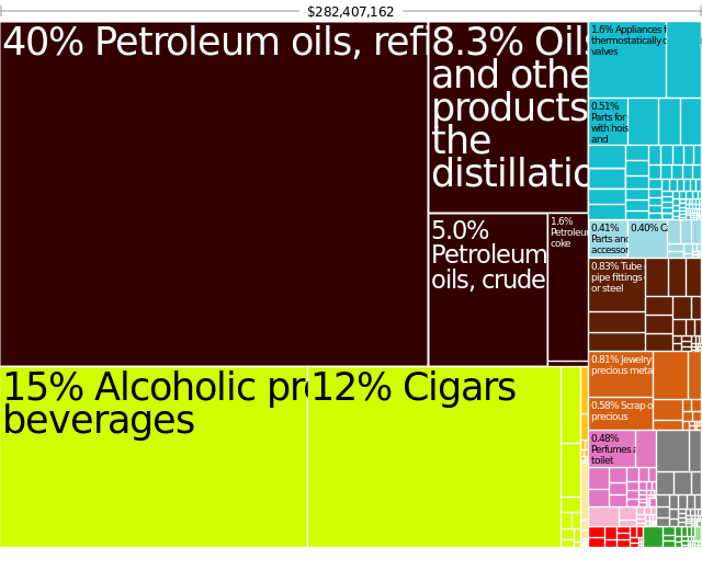 Export map for Aruba